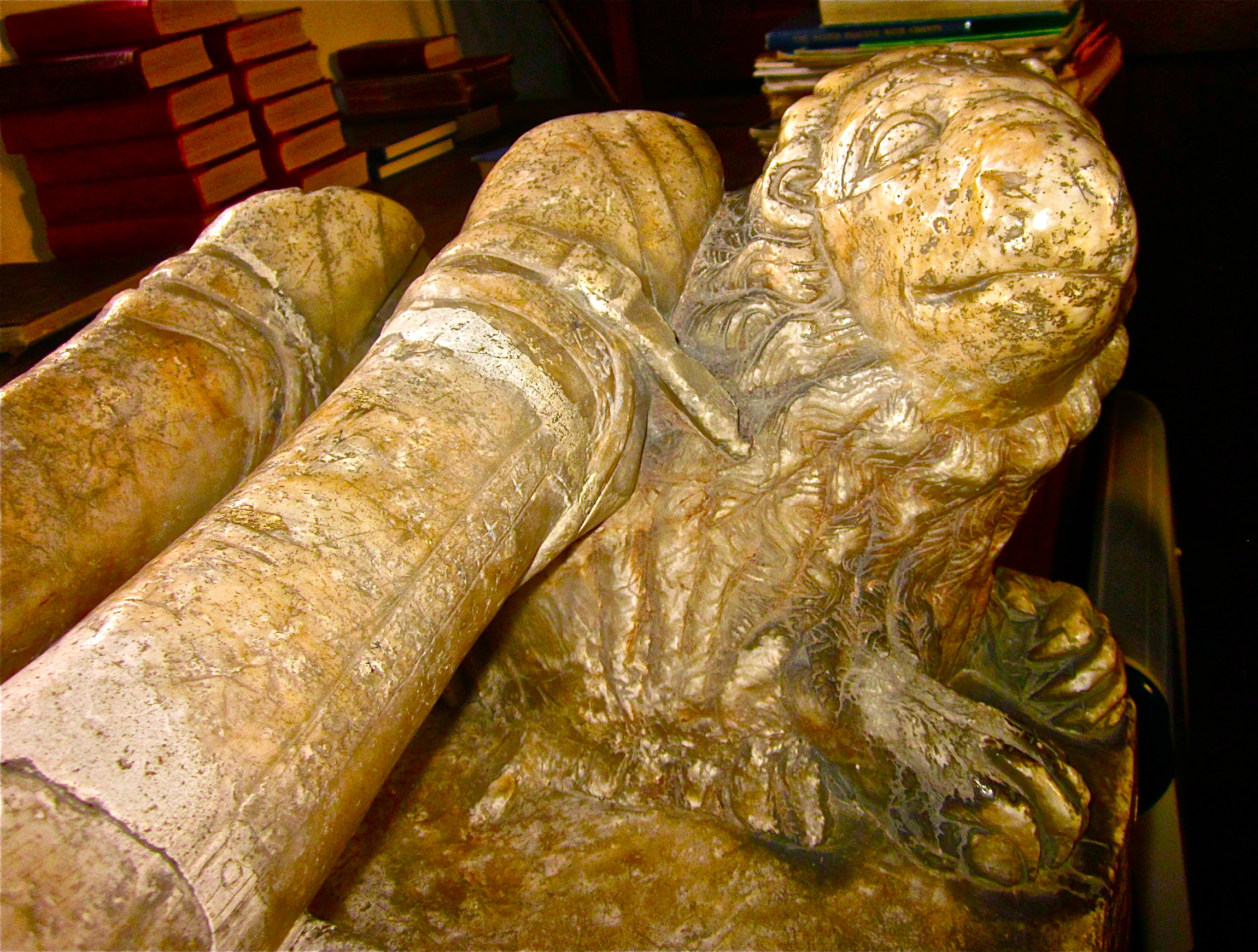 Tomb of Sir Thomas Grantham died 1618, now in St Mary le Wigford, Lincoln